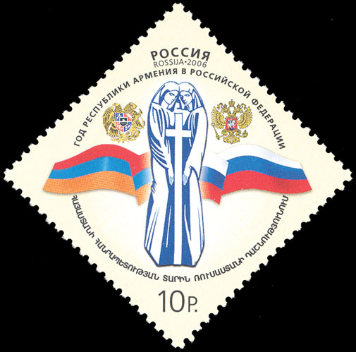 Stamps of Russia. The Year of the Republic of Armenia in the Russian Federation. Joint issue Russia - Armenia, 2006